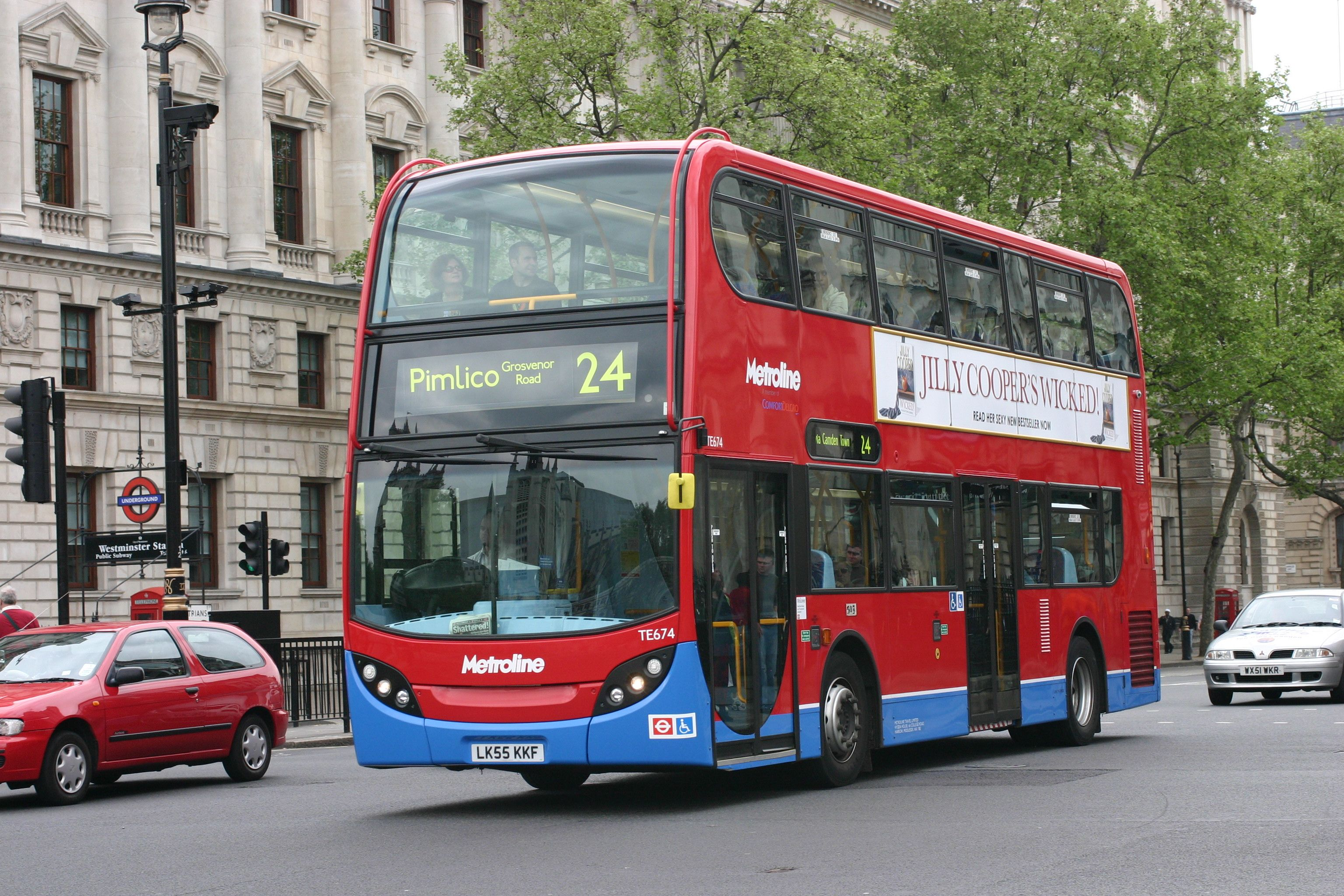 TE674 London